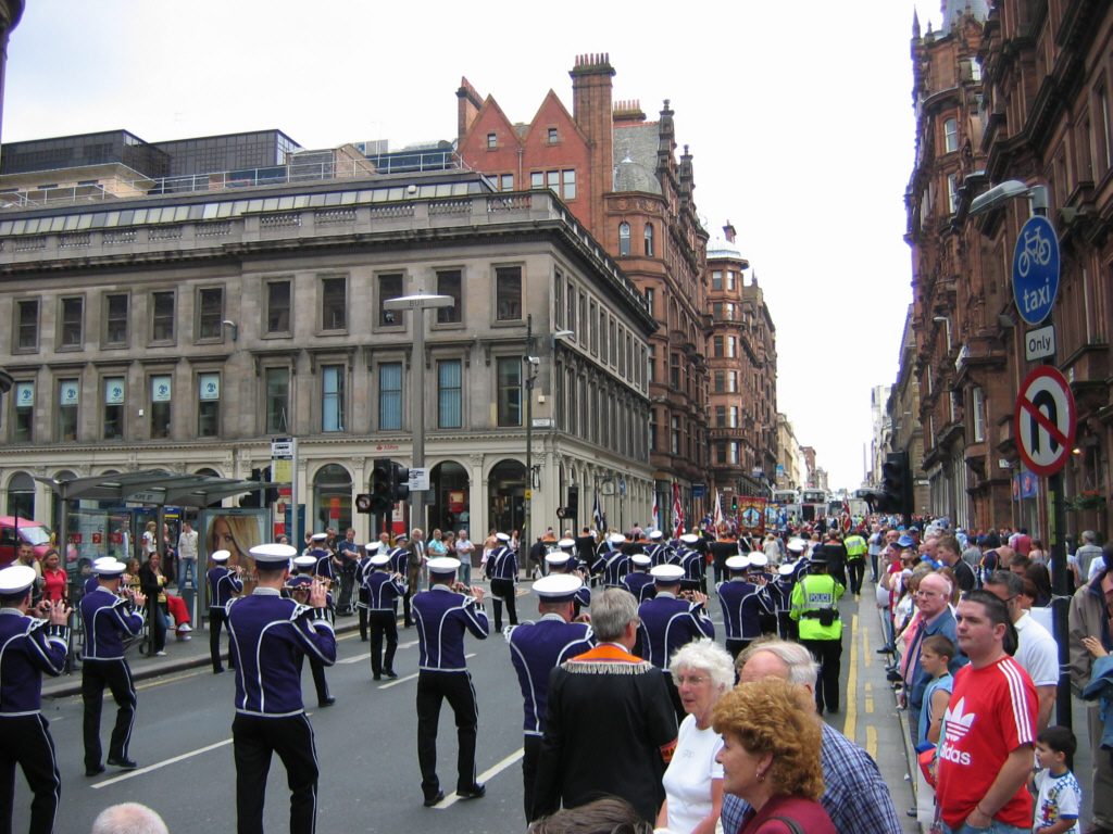 Parade of the Orange Order, Glasgow 2006.